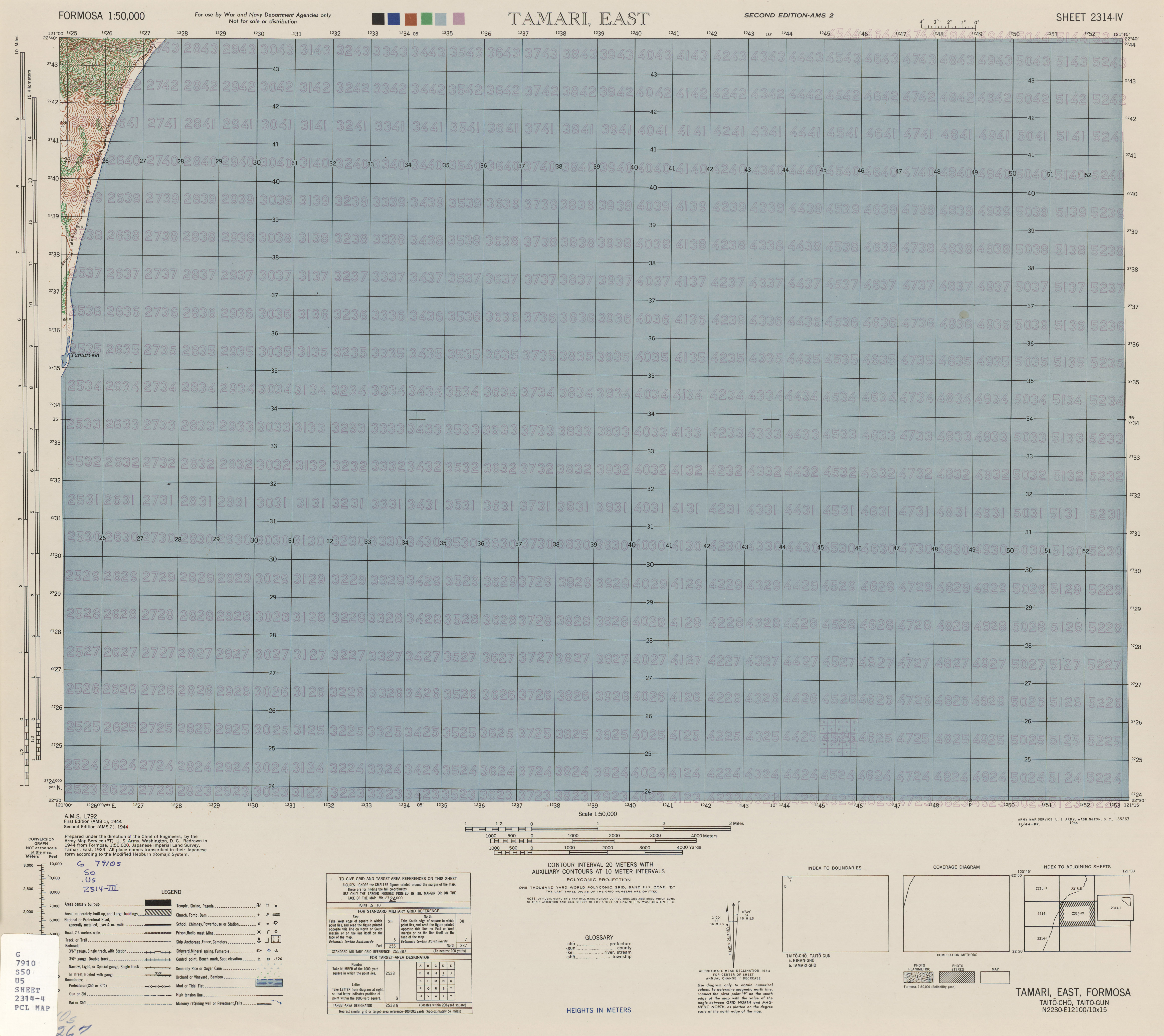 Map from Formosa (Taiwan) 1:50,000 AMS Series L792